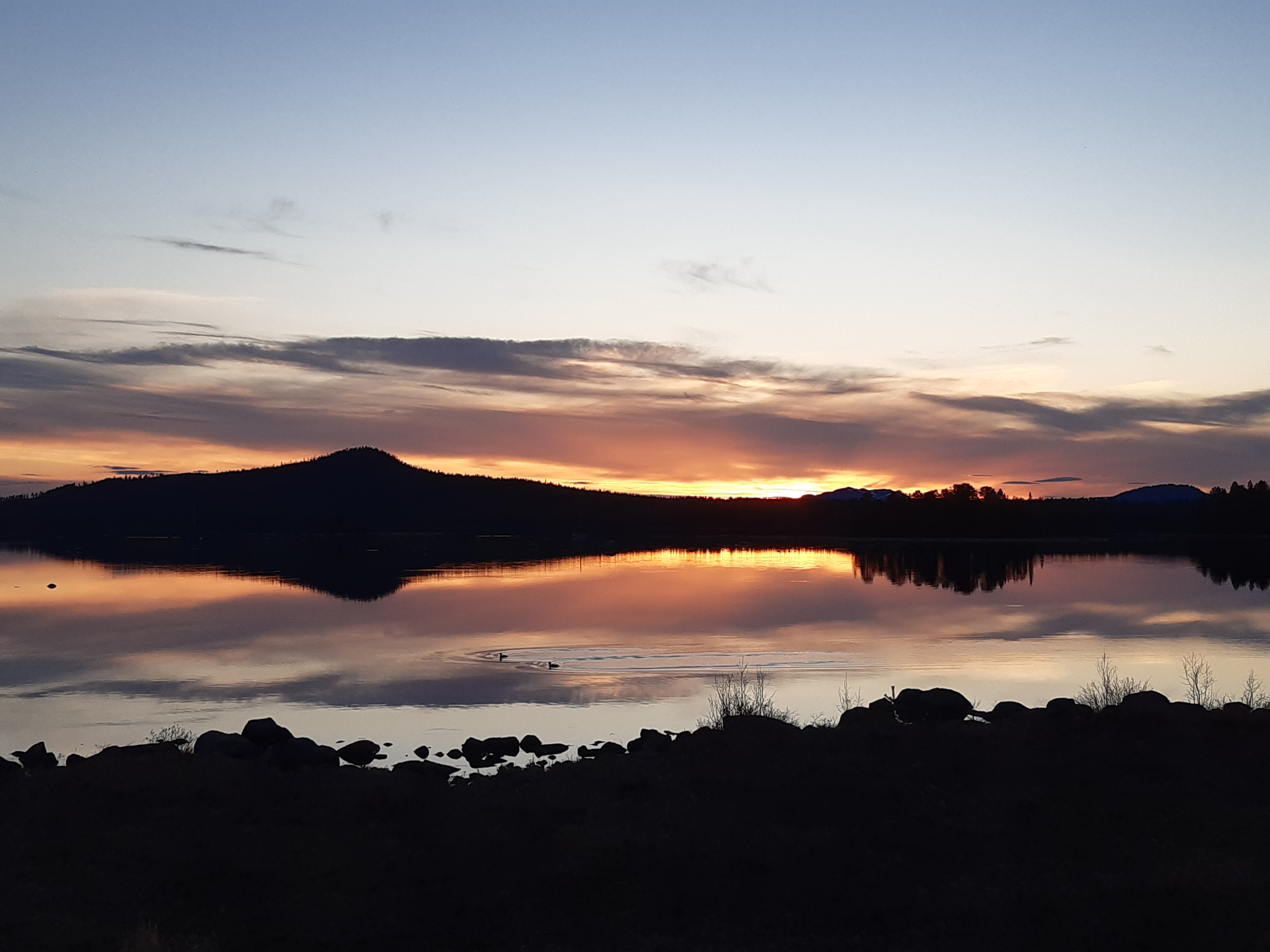 Midnightsun over the Sälla Lake, Arjeplog, Sweden